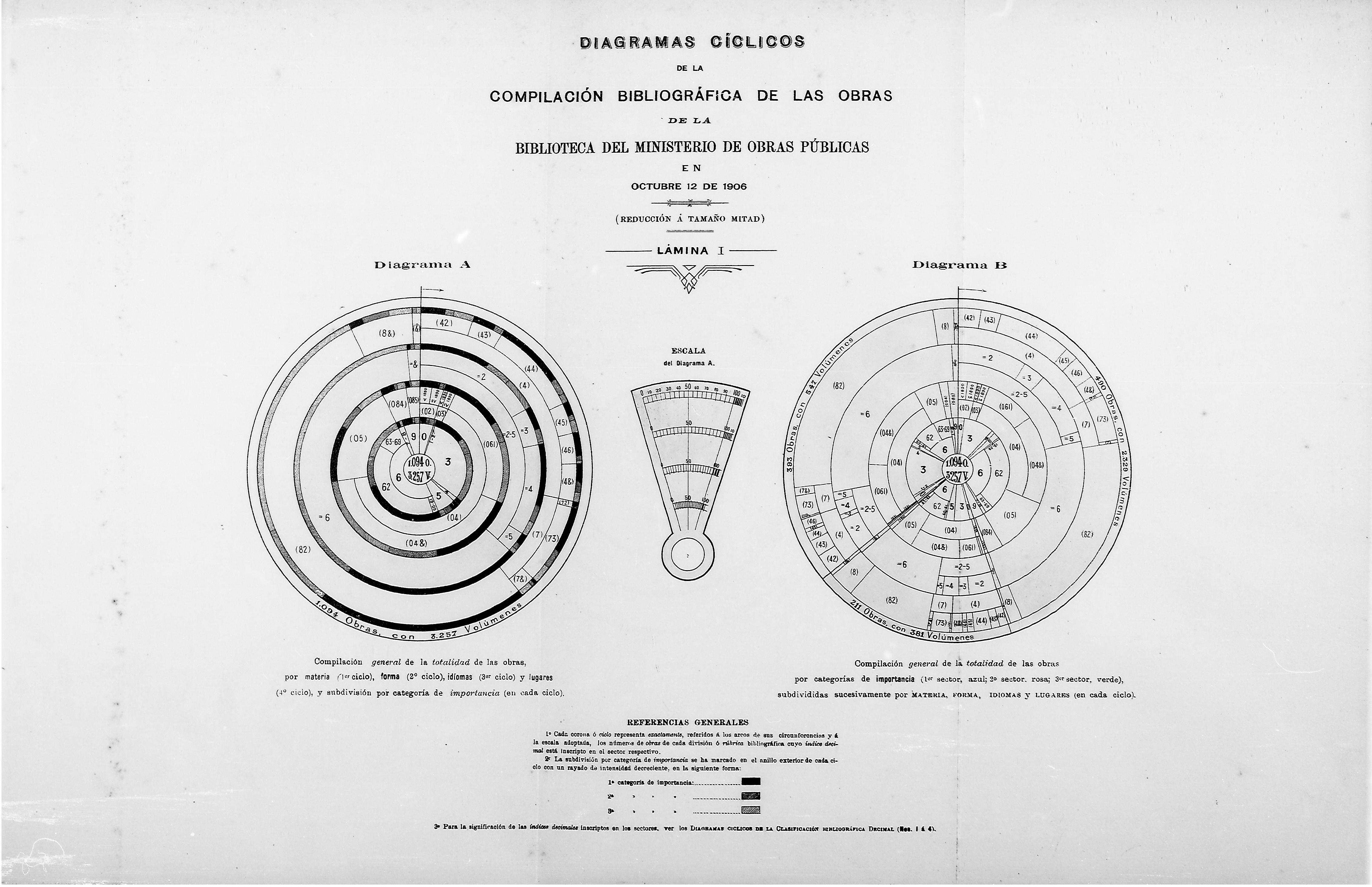 cyclic diagram about decimal classificaton